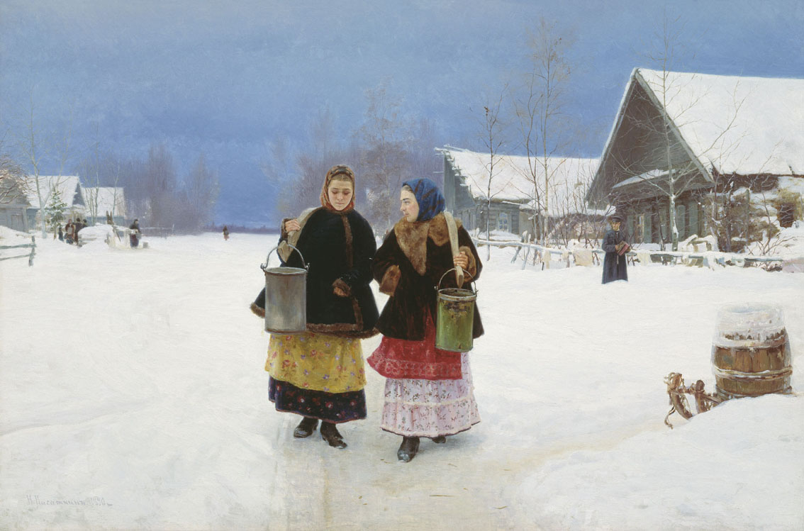 Rival Ladies